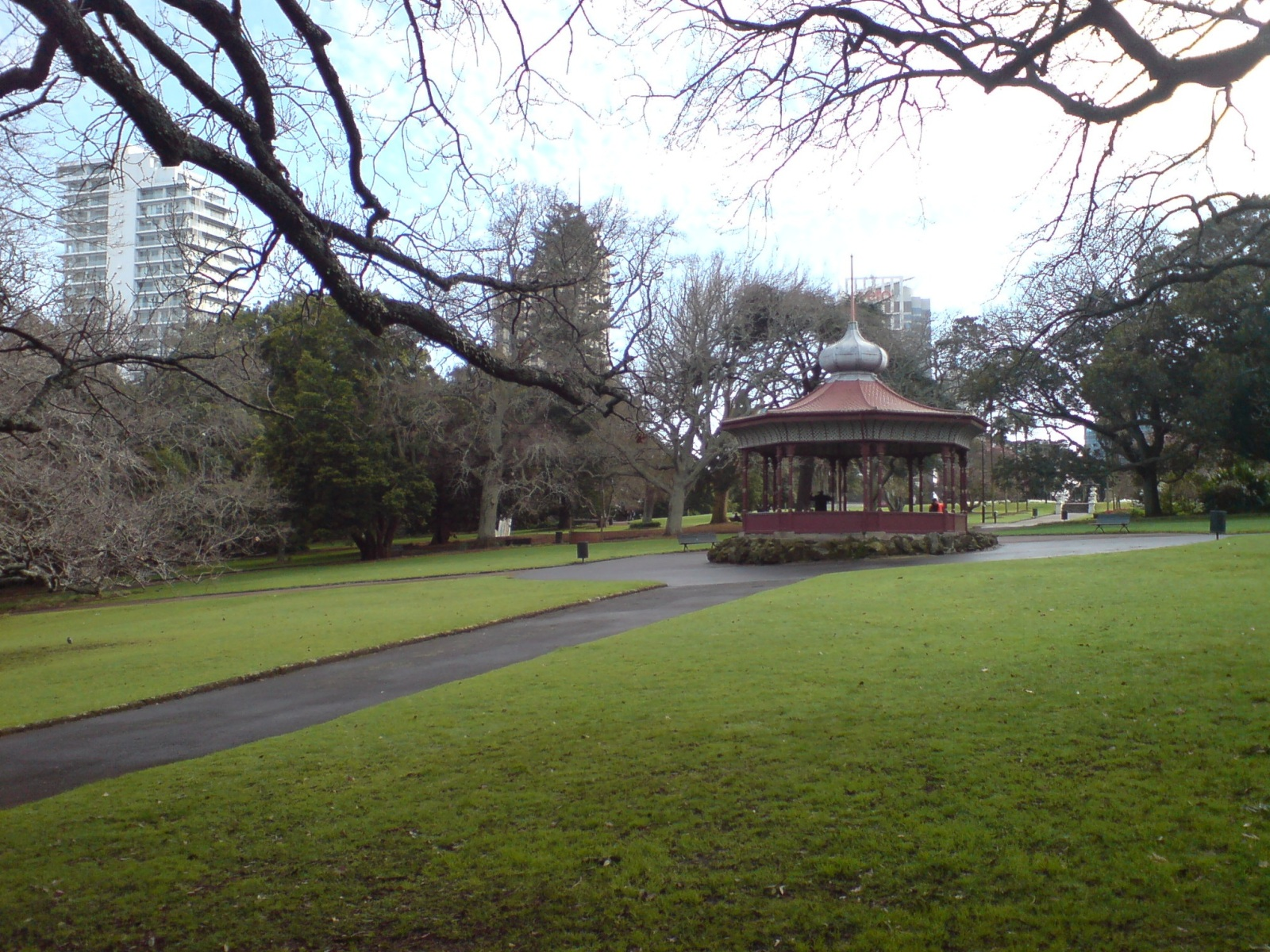 The band rotunda with its onion dome in Albert Park, a park in the Auckland CBD Auckland City, New Zealand. New Zealand Historic Places Trust Register number: 538